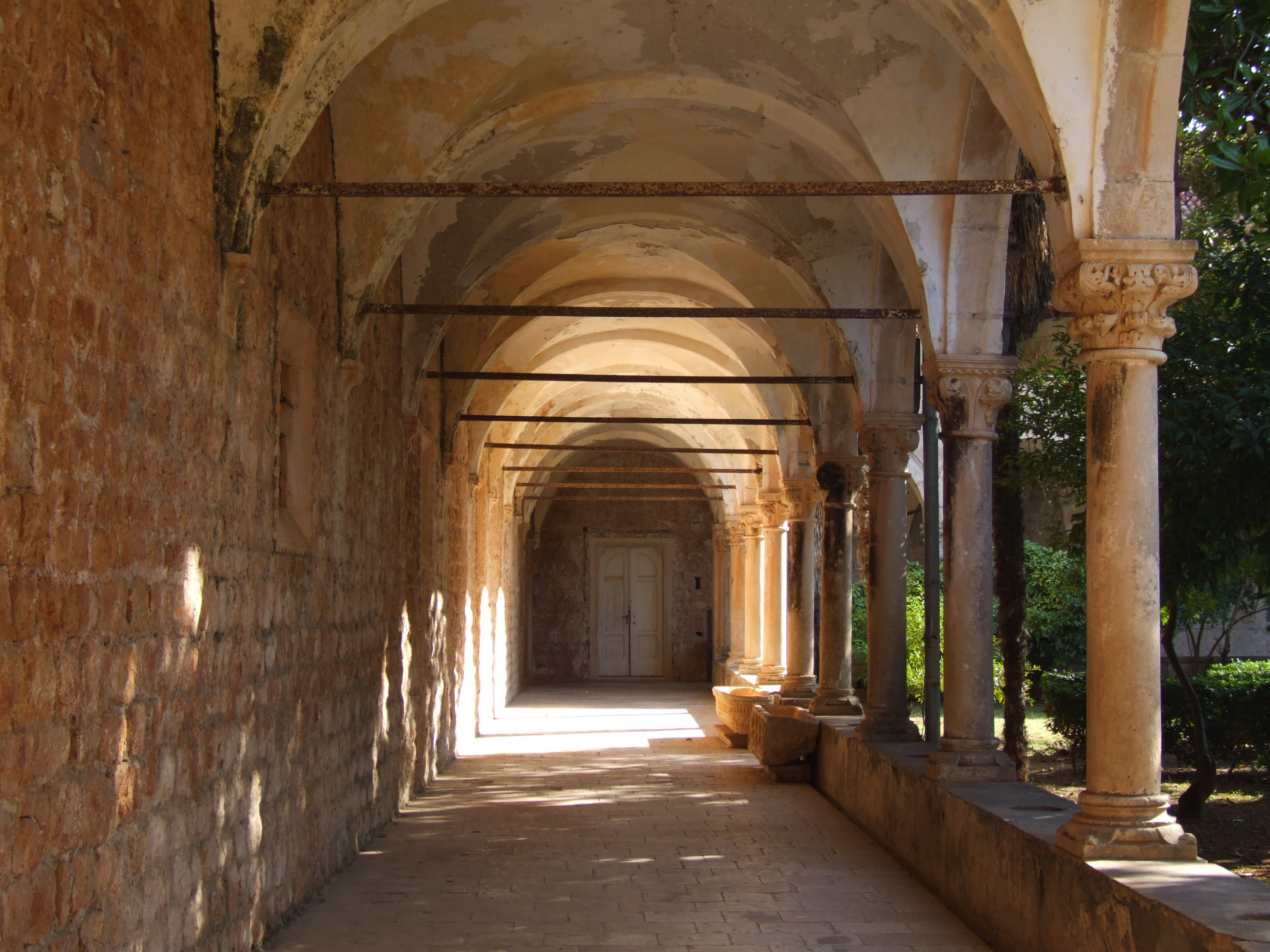 Lokrum island - former abbey